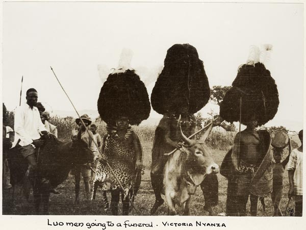 A chief burial in Luoland (1929)